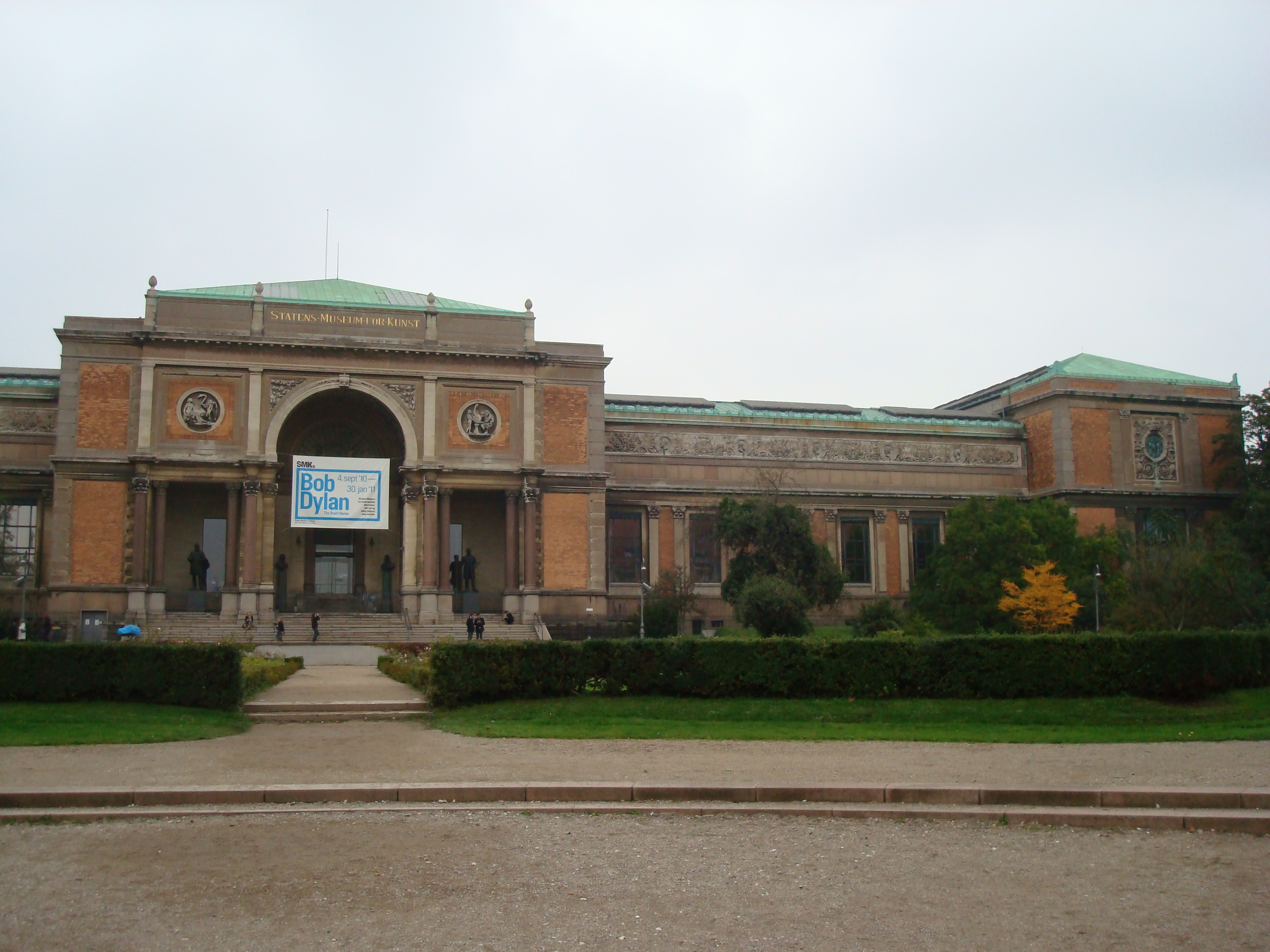 Copenhagen, Statens Museum for Kunst, Bob Dylan's exhibition